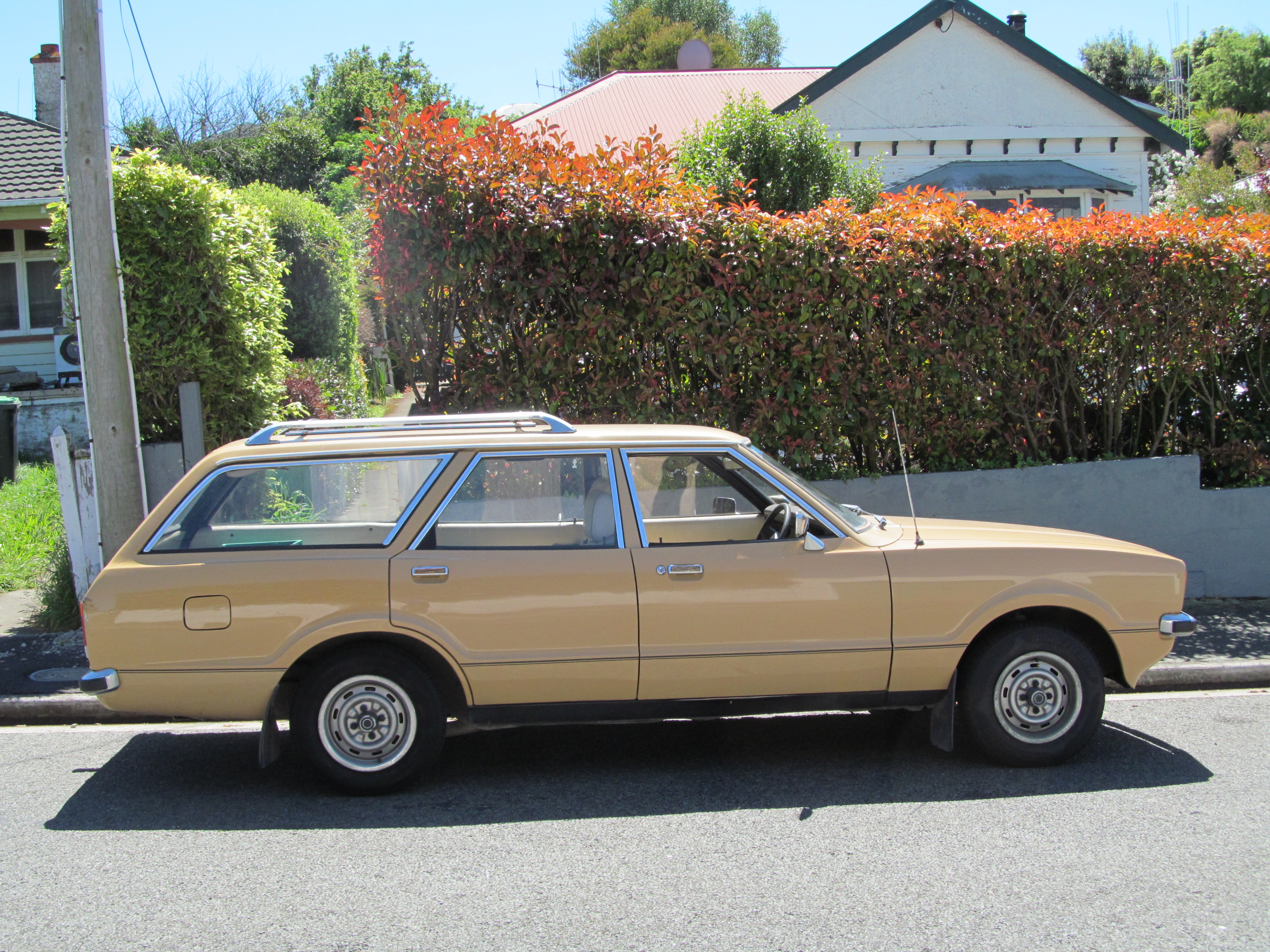 You are far more likely to see a Mk5 Cortina than one of these Mk4s thanks to the level these rusted to, so this was an extra special find. If only it was parked outside a dated-looking 1970s house...